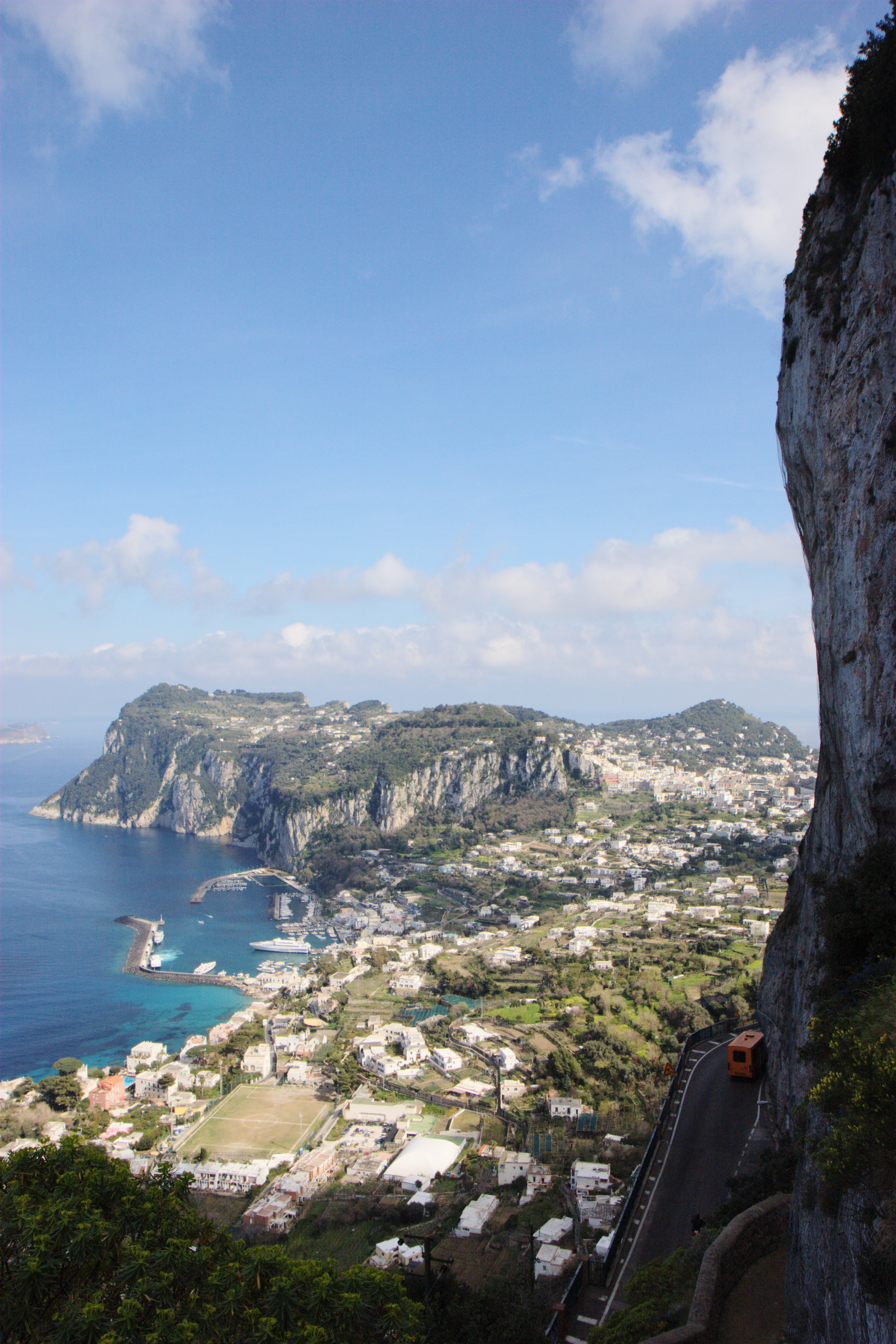 Capri, view North from the Phoenician Steps